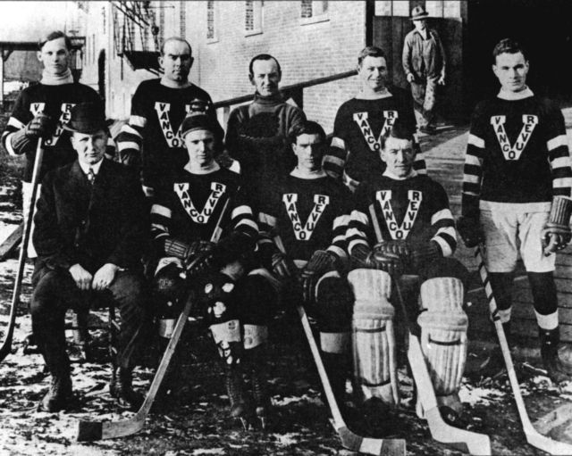 Vancouver Millionaires of the PCHA from the 1914–15 PCHA season, in which they would win the Stanley Cup.Back row (left to right): Unknown, Cyclone Taylor, Edward Muldoon, Mickey MacKay, Frank NighborFront row (left to right): Frank Patrick, Si Griffis, Lloyd Cook, Hugh Lehman